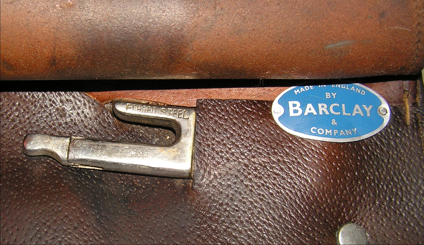 Stirrup bar, housed under a flap on an English saddle, used to hold the stirrup leather. Note hinged emergency release feature